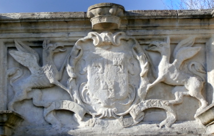 Arms of George Granville, 1st Baron Lansdowne of Bideford (1666-1735): Gules, three clarions or. Detail of sculpted escutcheon on parapet of Queen Anne's Walk, Barnstaple, Devon, completed 1713. He is identifiable by the baron's coronet above and by his motto, shown sculpted here: Deo, Patriae, Amicis[1] ("For God, my Country and Friends"), the motto of his uncle John Granville, 1st Earl of Bath having been: Futurum invisibile ("The future is unseen").[2] The arms are not those of John Granville, 1st Earl of Bath (1628–1701), or of his son Charles Granville, 2nd Earl of Bath (1661–1701). The latter's son William Granville, 3rd Earl of Bath (1692-1711) died aged only 19 two years before the building was completed in 1713.